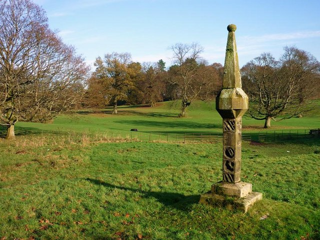 Sundial at Cumbernauld House Around the back of Cumbernauld House is this fine, early eighteenth century sundial. There are various different kinds of sundial and this one is of the "obelisk" type. The sundial was originally situated around the front of the house, in the rose-garden, however it was moved to its existing location when that area was turned into a carpark.